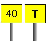 Start and end of temporary speed reduction area. Image created by myself in Macromedia Fireworks MX